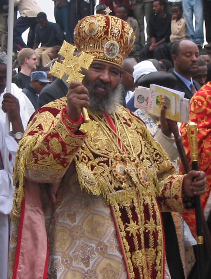 Abuna Paulos at the Timqet Celebration January 2005